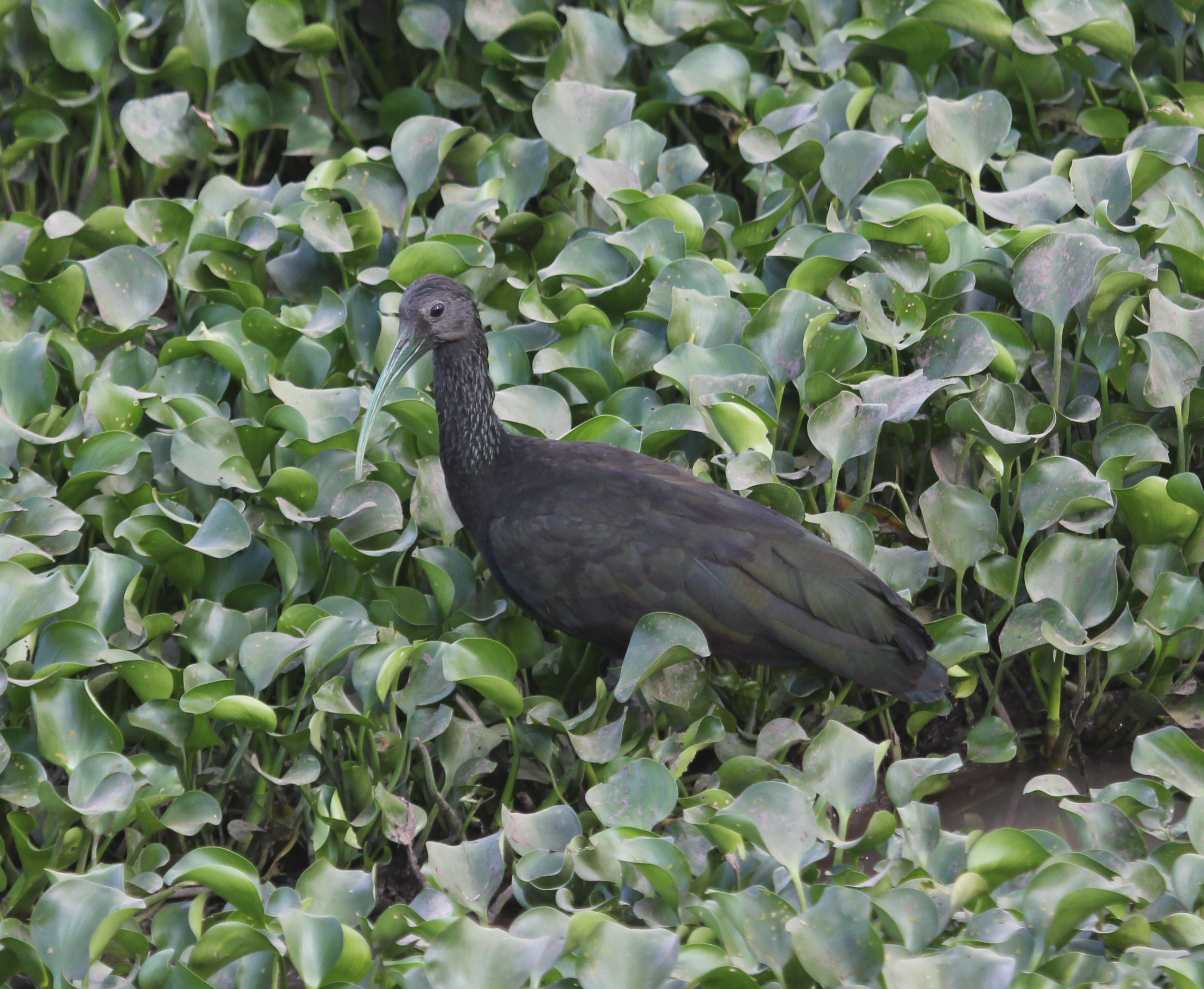 Green Ibis (Mesembrinibis cayennensis) in the Pantanal (Brazil), near the Transpantaneira